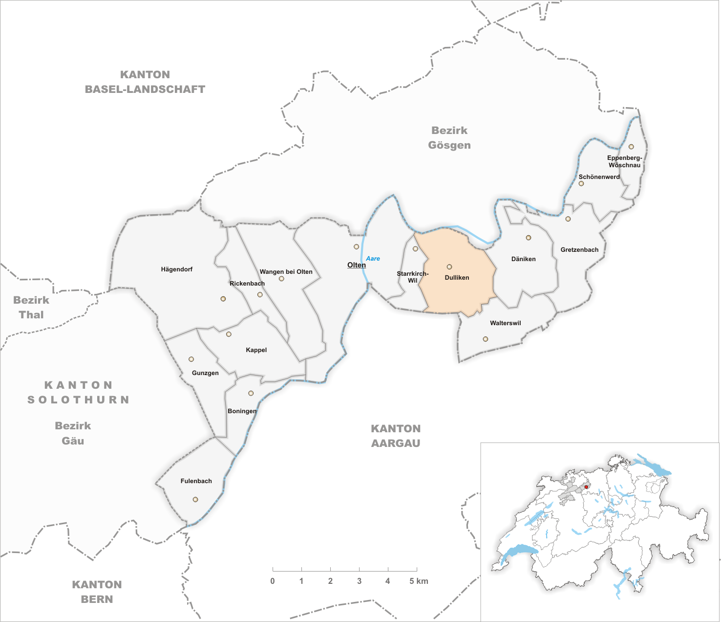 Municipality Dulliken